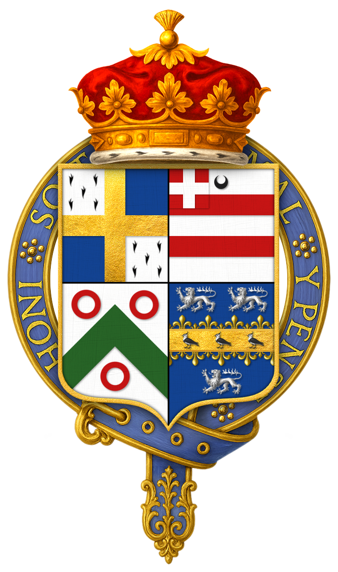 Coat of arms of Thomas Osborne, 1st Duke of Leeds, KG